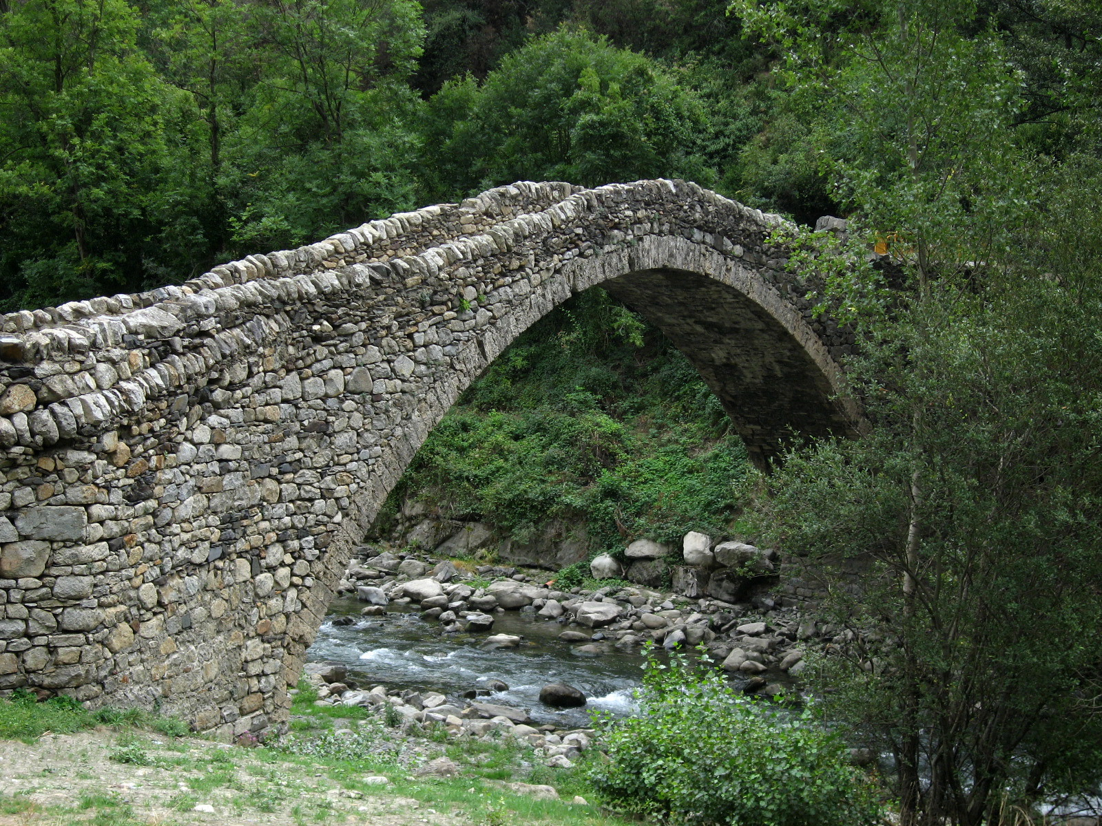 Pont de la Margineda, a 12th-century Romanesque bridge in La Margineda, Andorra. The best-preserved and largest (33m long, 9.2m tall) in Andorra.